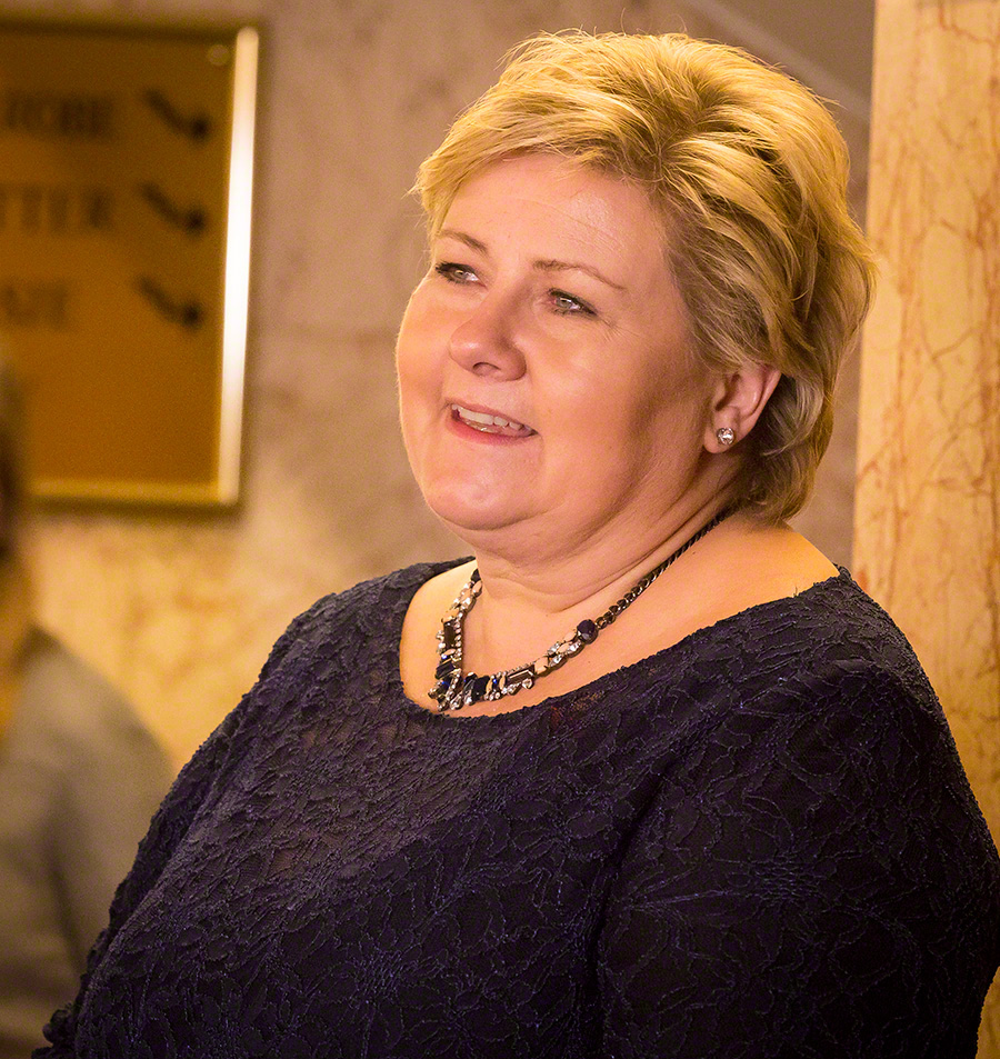 Erna Solberg at Governor Øystein Olsen's annual address in February 2016